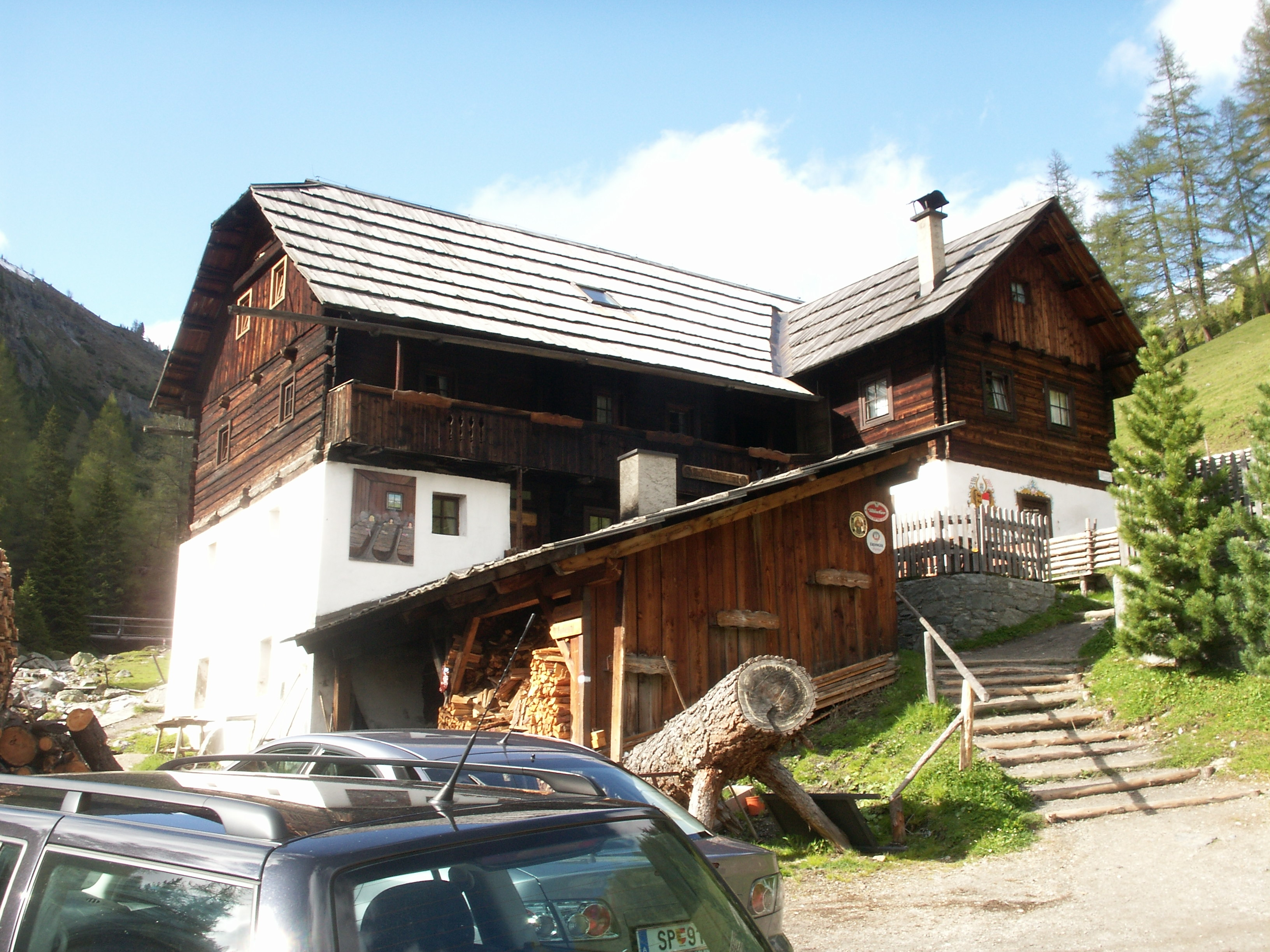 Alpine pasture, an old farmers spa still in use near Innerkrems in the Nockberge mountain range, district Spittal an der Drau / Carinthia / Austria / EU. Seen from south. The basement to the bathroom is made of stone, the upper part is made of wood. In the wooden hut in the foreground, the stones are heated for the bath water.